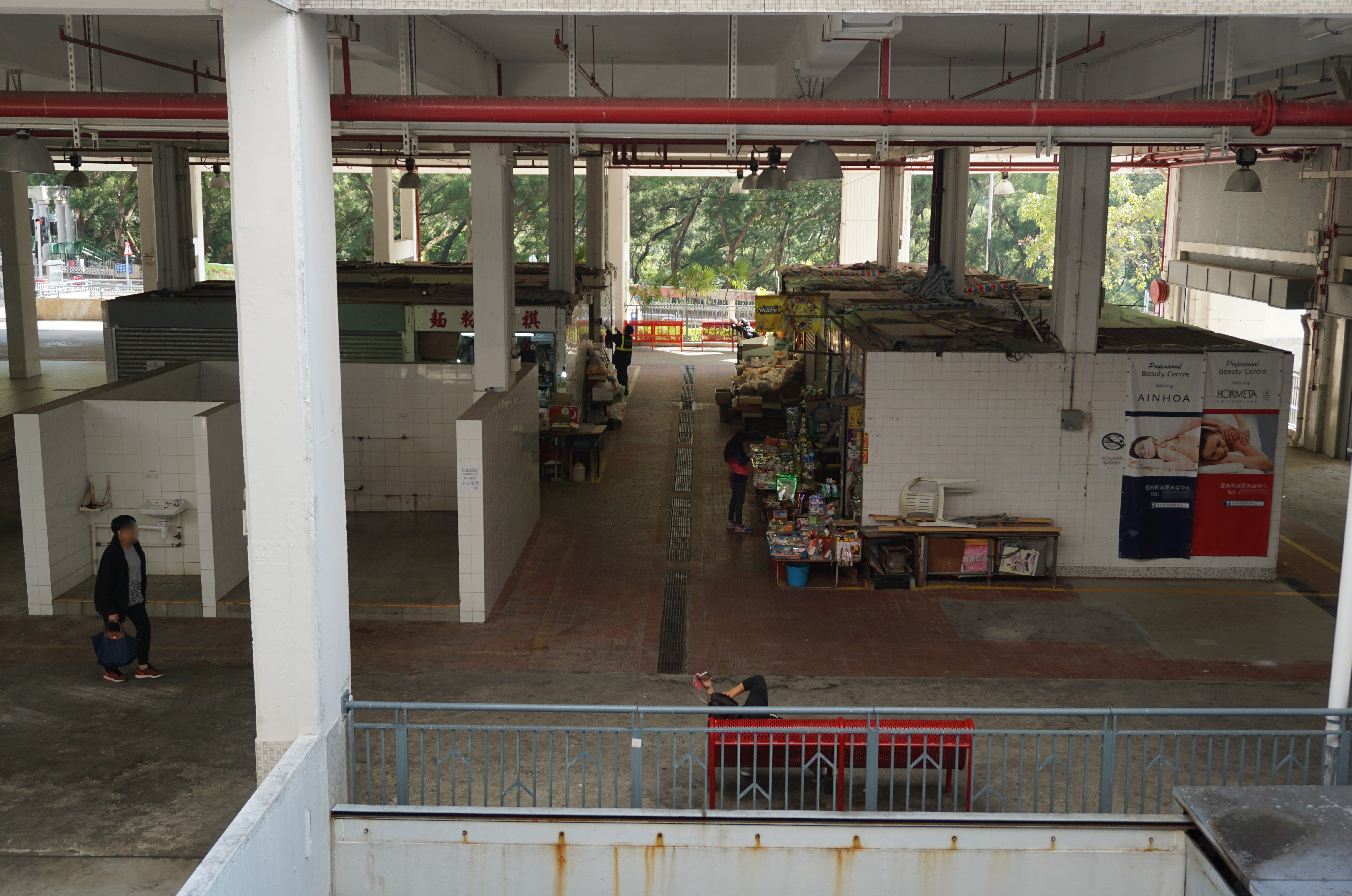 Cheung Shan Estate in Tsuen Wan, Hong Kong.